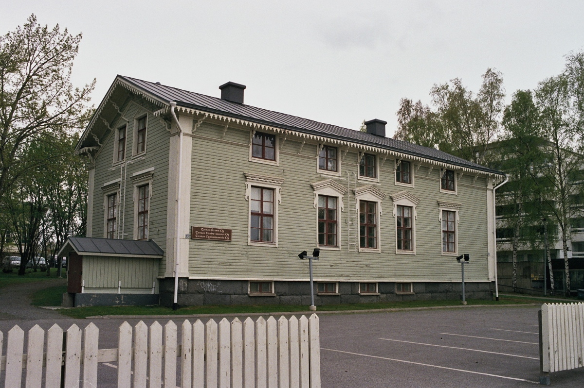 A wooden building at Lukiokatu 10 in Suensaari, Tornio, Finland. The building was originally constructed in 1866 for the mayor of Tornio, Frans Julius Cederman.